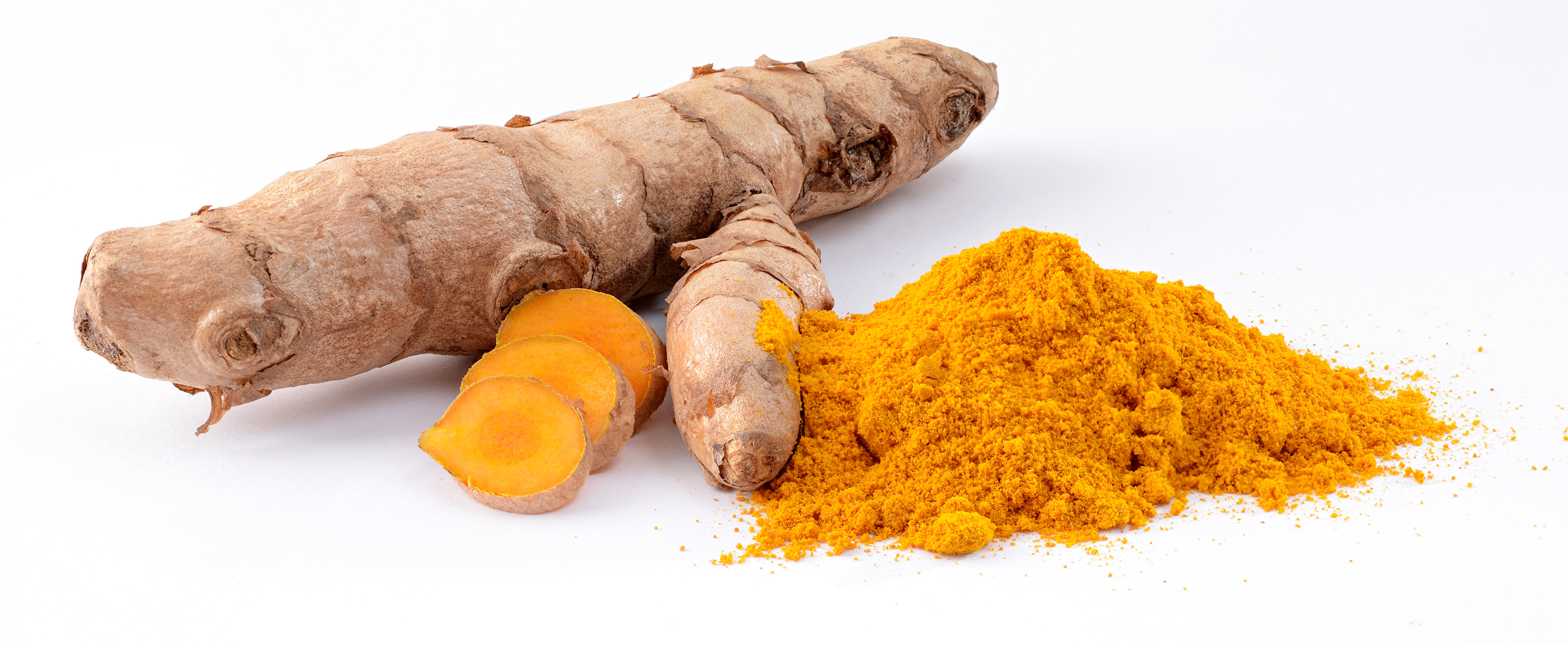 Turmeric (Curcuma longa): fresh rhizome and powder. Stack of 5 images, combined with CombineZP.